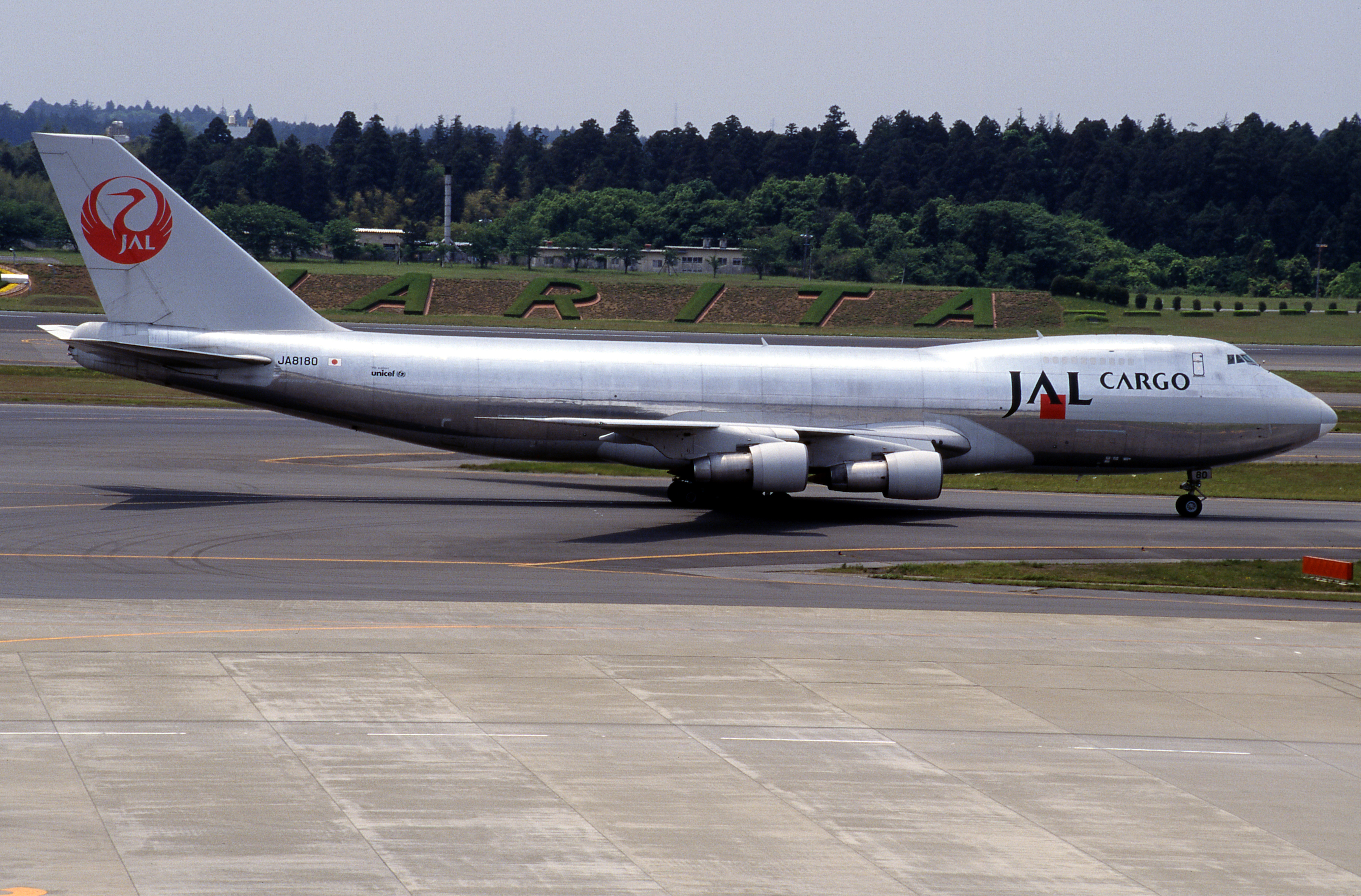 Japan Airlines Boeing 747-246F(SCD) (JA8180/23641/684)